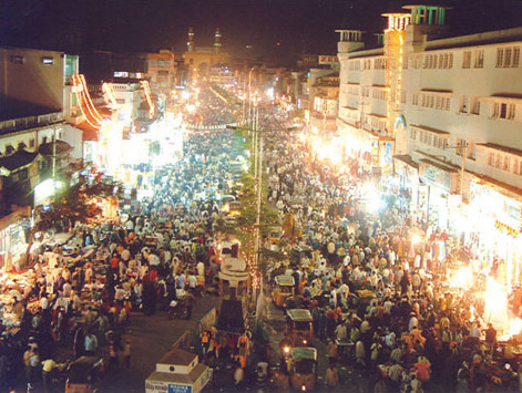 A Chaand Raat celebration in Hyderabad, India. Shopping scene at the Old City prior to the Muslim festival of Eid. Chand raat is the meaning of night of the moon.This is the night of bleesing for us for muslims all over the world.Chand raat is the festivl which is quite popular in the world and its celebrations is must never be missed at all.Muslims celebrates the Eid-Ul-Fitr after the month of fasting "Ramdan"after sighting the moon of shawwal.The moon of shawwal makes the officl announcement of the end the holy month of Ramdan.